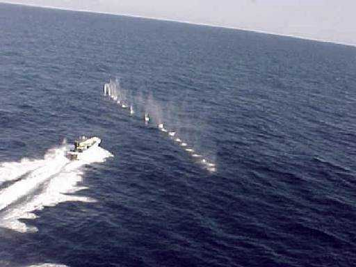 USCG helicopter fires warning shots to stop a smuggler. Image of USCG helicopter firing warning shots at smugglers in a boat.